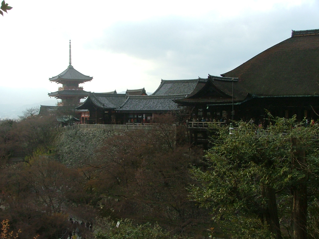 view of Kiyomizu-dera from above